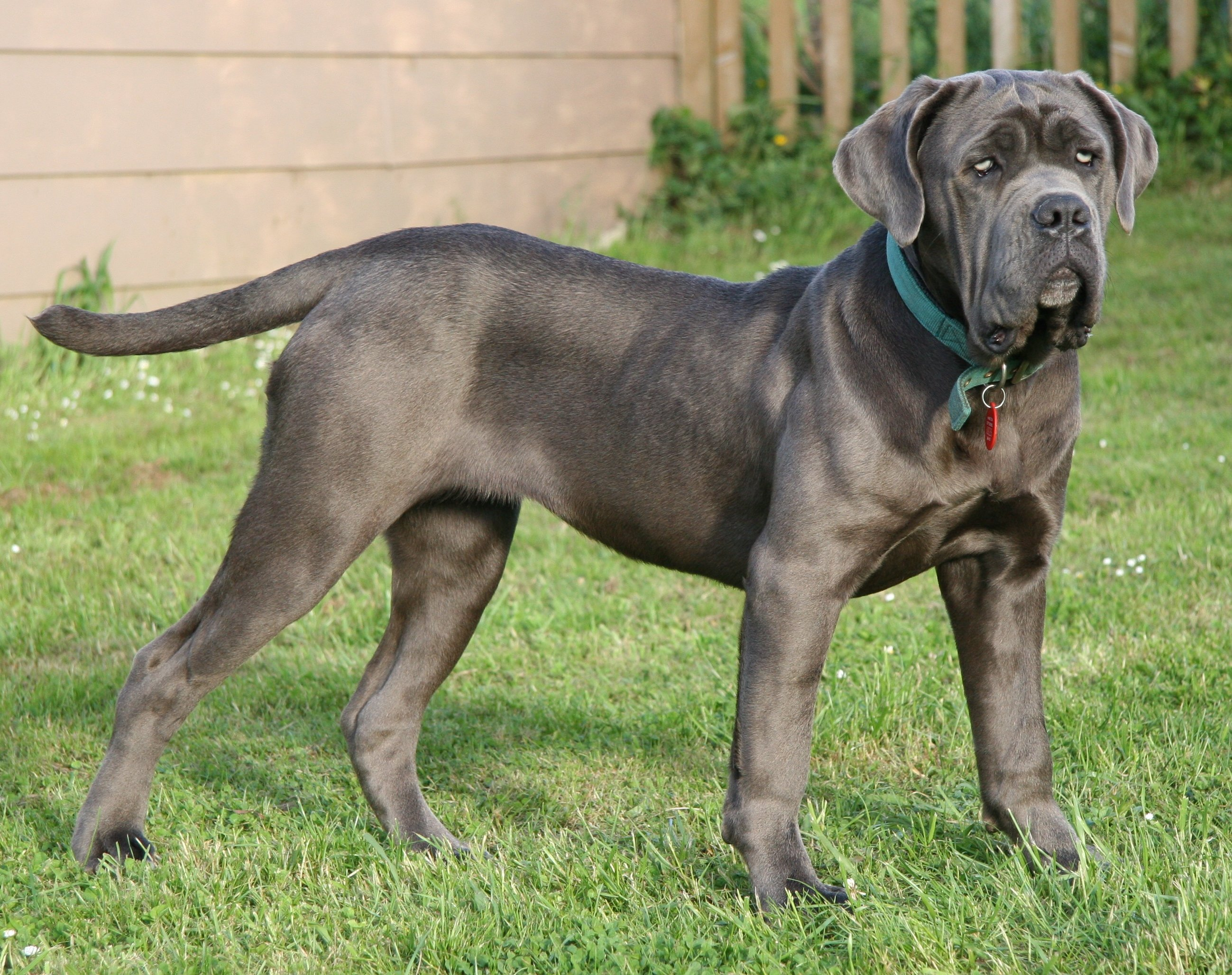 Five months old. Female neo (Neapolitan Mastiff) puppy.